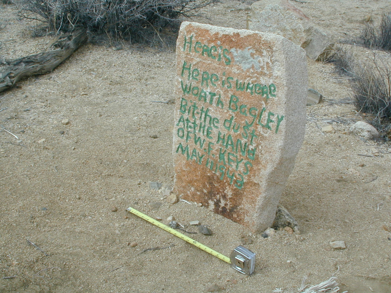 Granite slab placed by Bill Keys, long time local resident and owner of Desert Queen Ranch, to mark the location along the road to Wall Street Mill where Keys shot and killed Worth Bagley in a dispute over Keys' access to the mill. Joshua Tree National Park, California. Inscription reads: "Here is where Worth Bagley bit the dust at the hand of W. F. Keys, May 11, 1943."